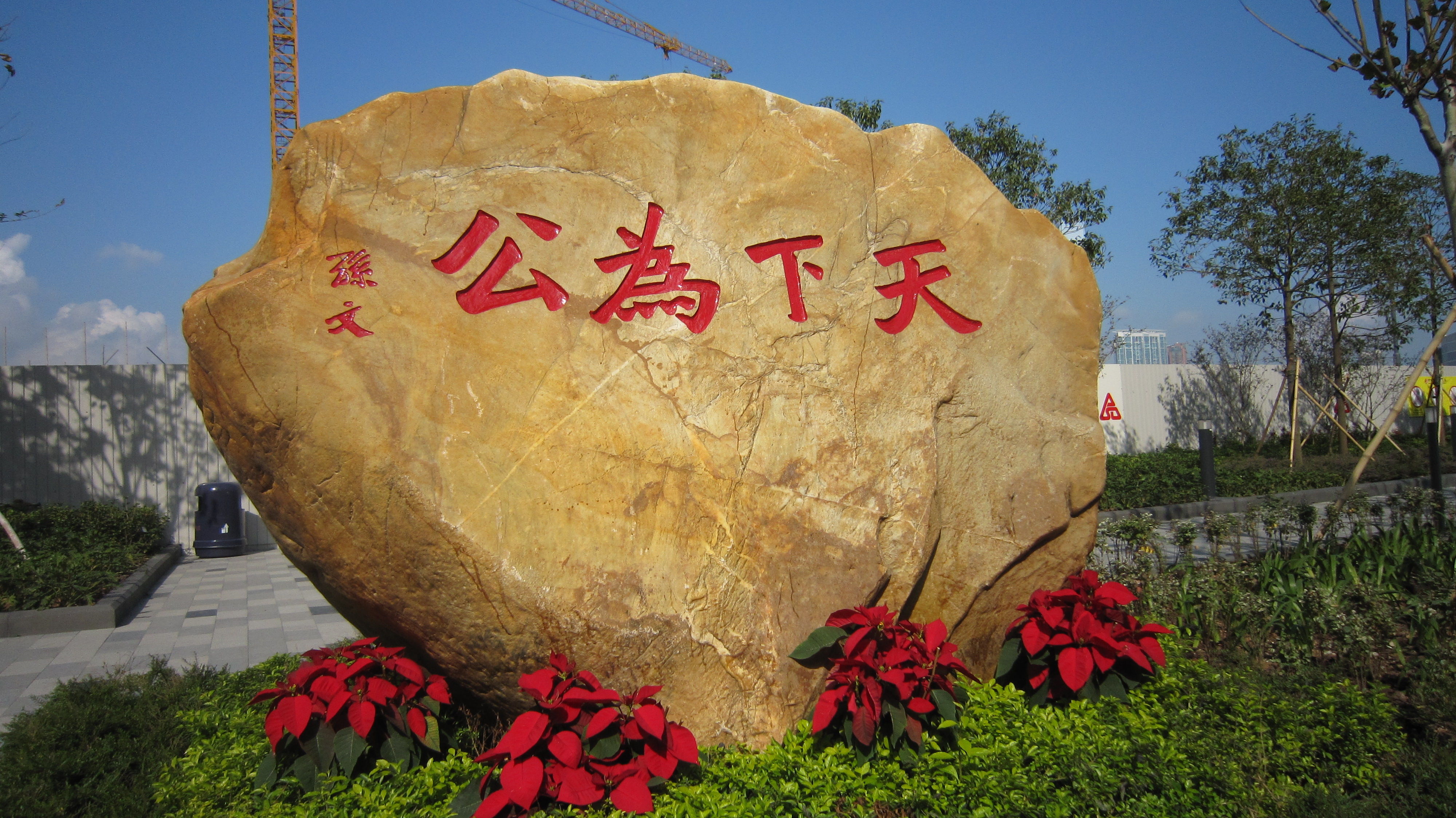 Western Park (now renamed as Sun Yat Sen Memorial Park)